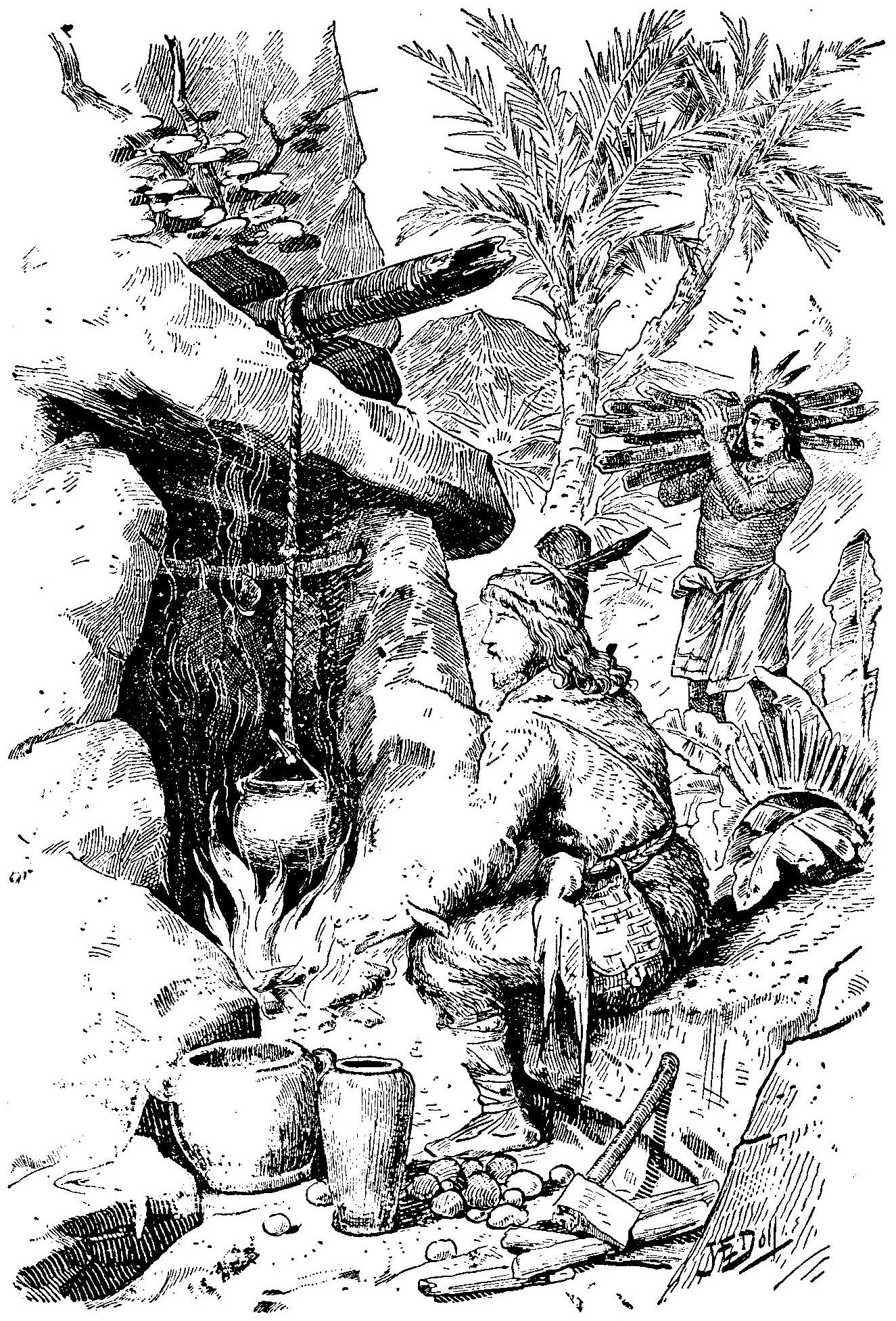 An illustration from Робінзон Крузо (1919) — a Ukrainian translation of "Robinson Crusoe" by Daniel Defoe.